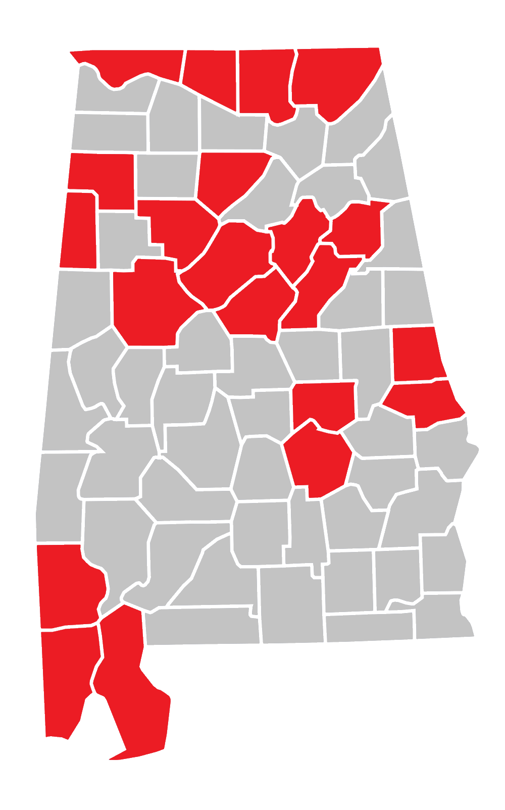 As this outbreak is still ongoing, this map may not be entirely accurate. Confirmed cases